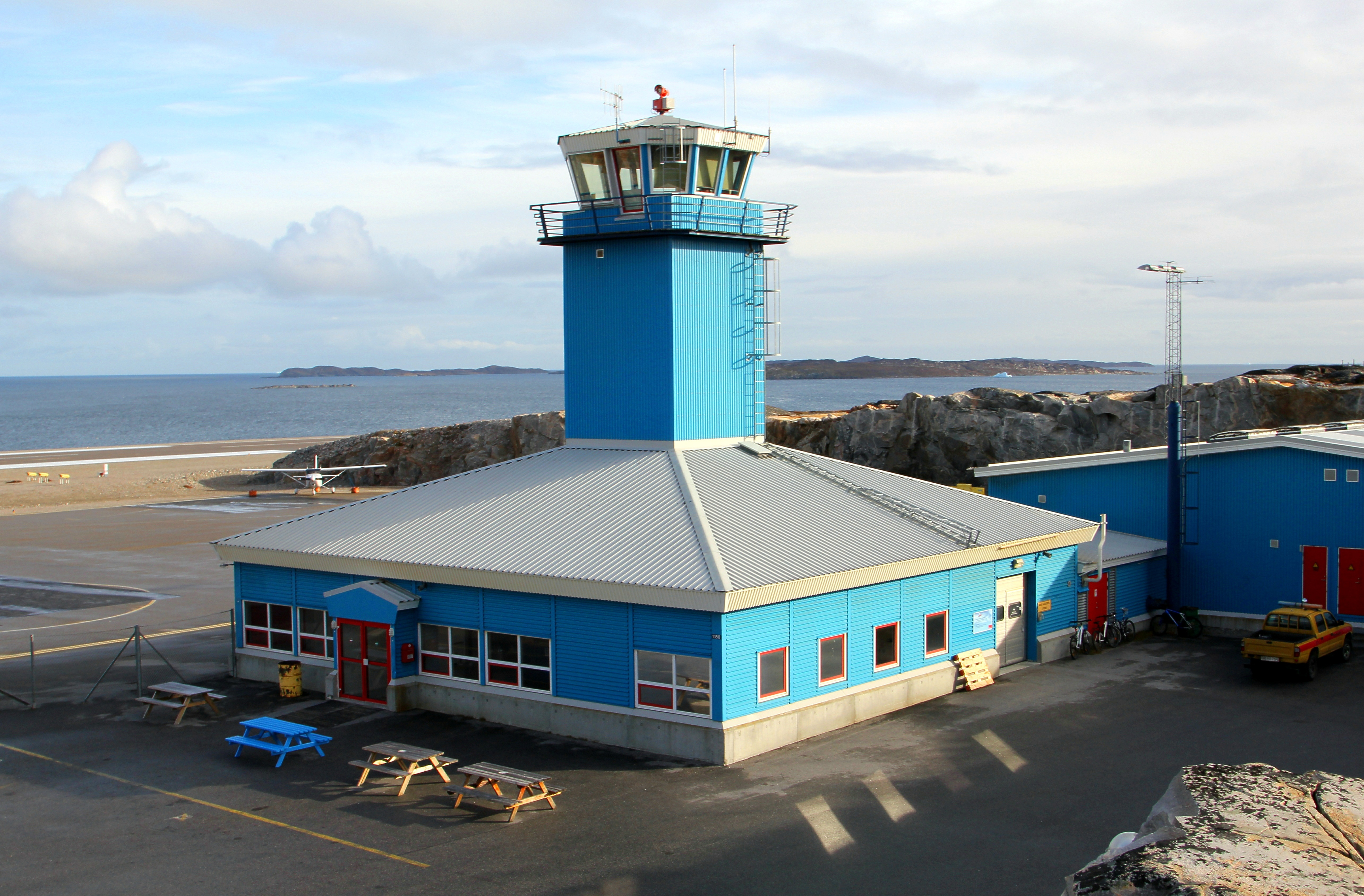 Airport Building and Control Tower in JEG airpport